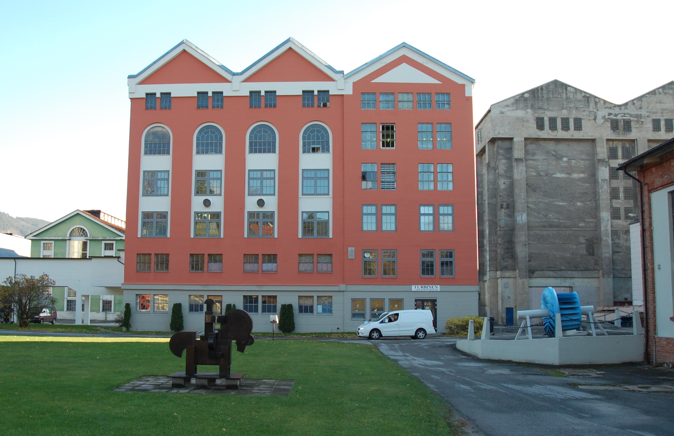 Norsk Hydro, the temporary Ammonium Nitrate factory (1915/1917), Notodden